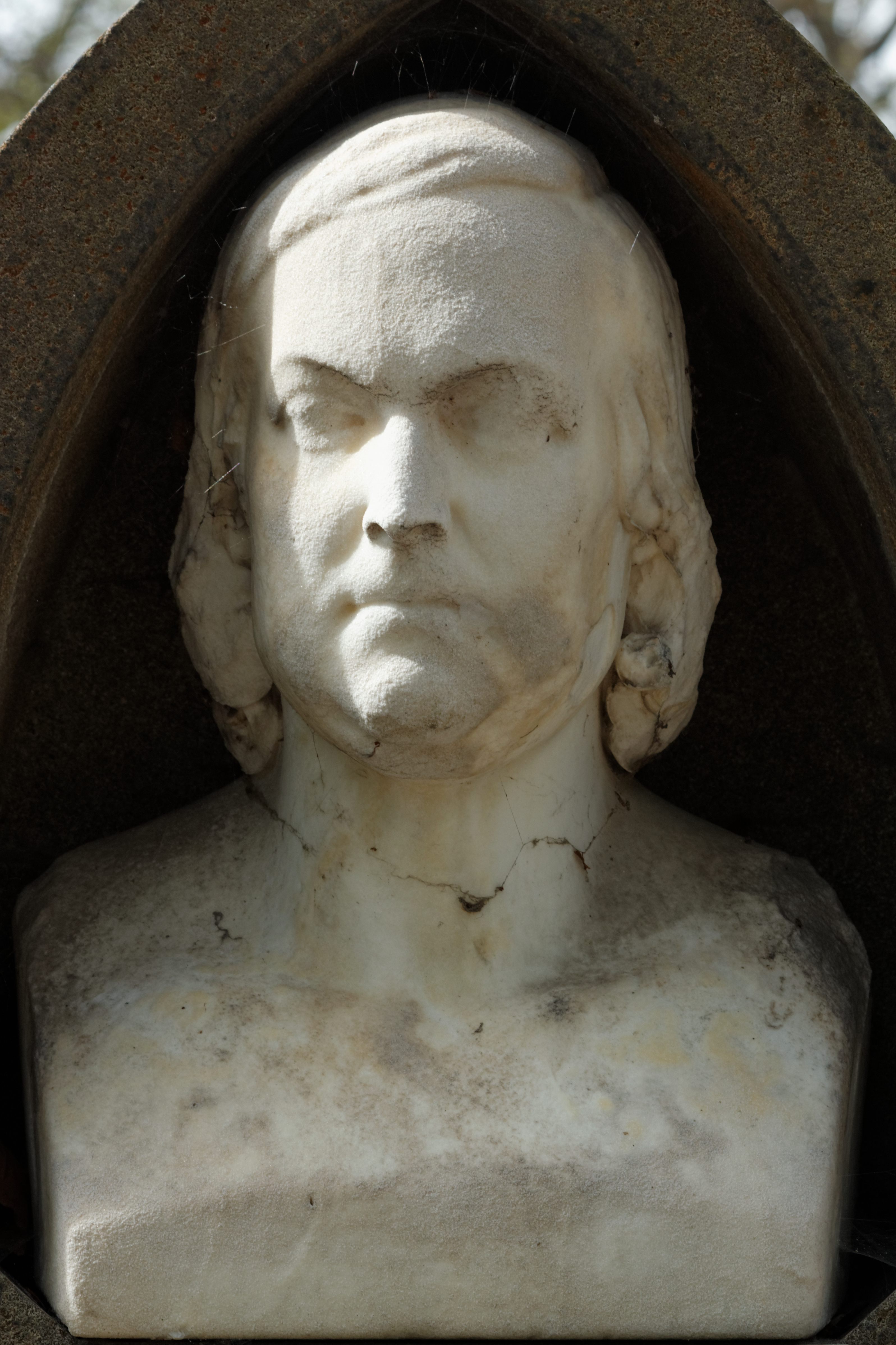 bust